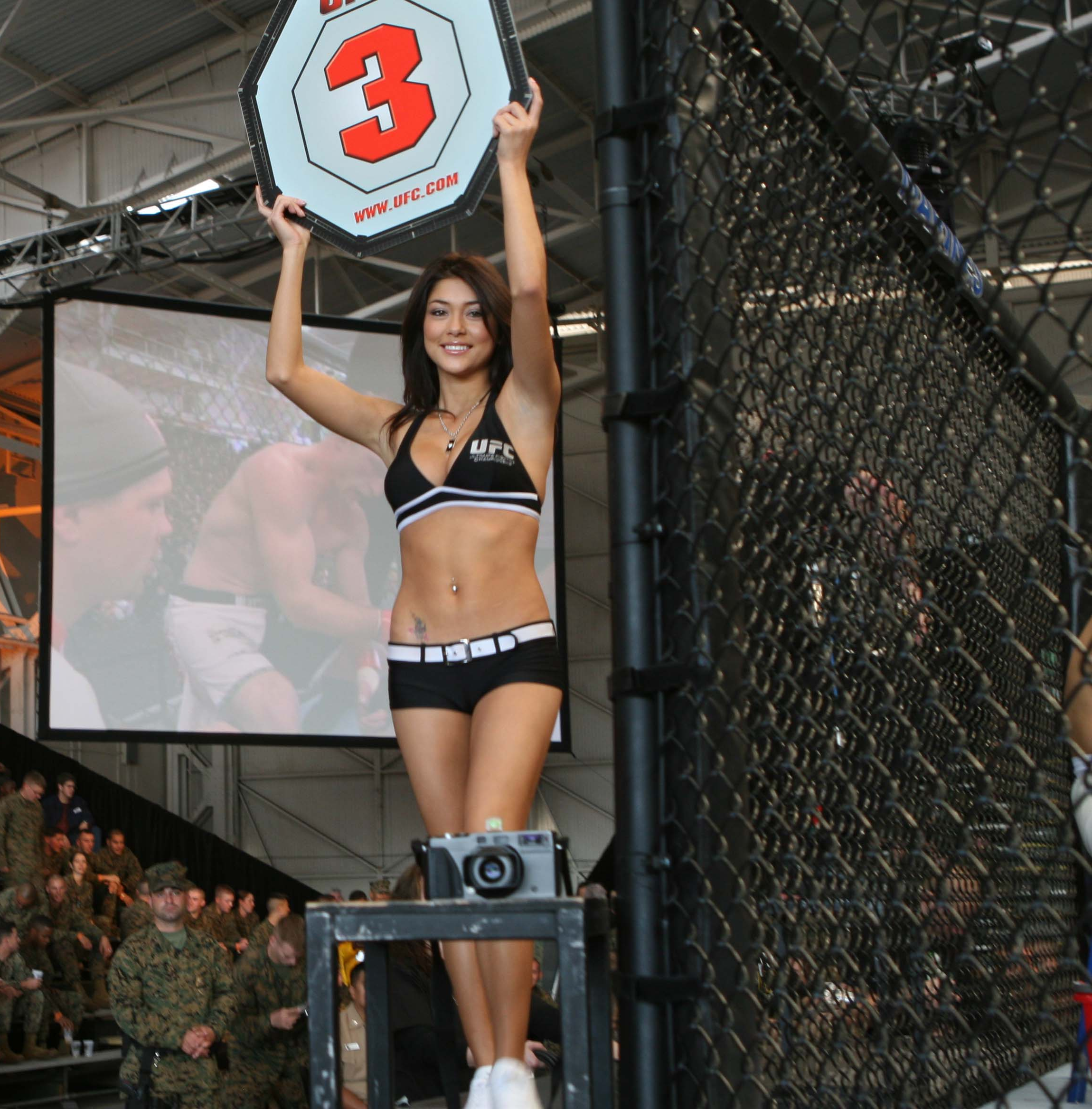 Cropped from original image by Lance Cpl. Kaitlyn M. Scarboro.